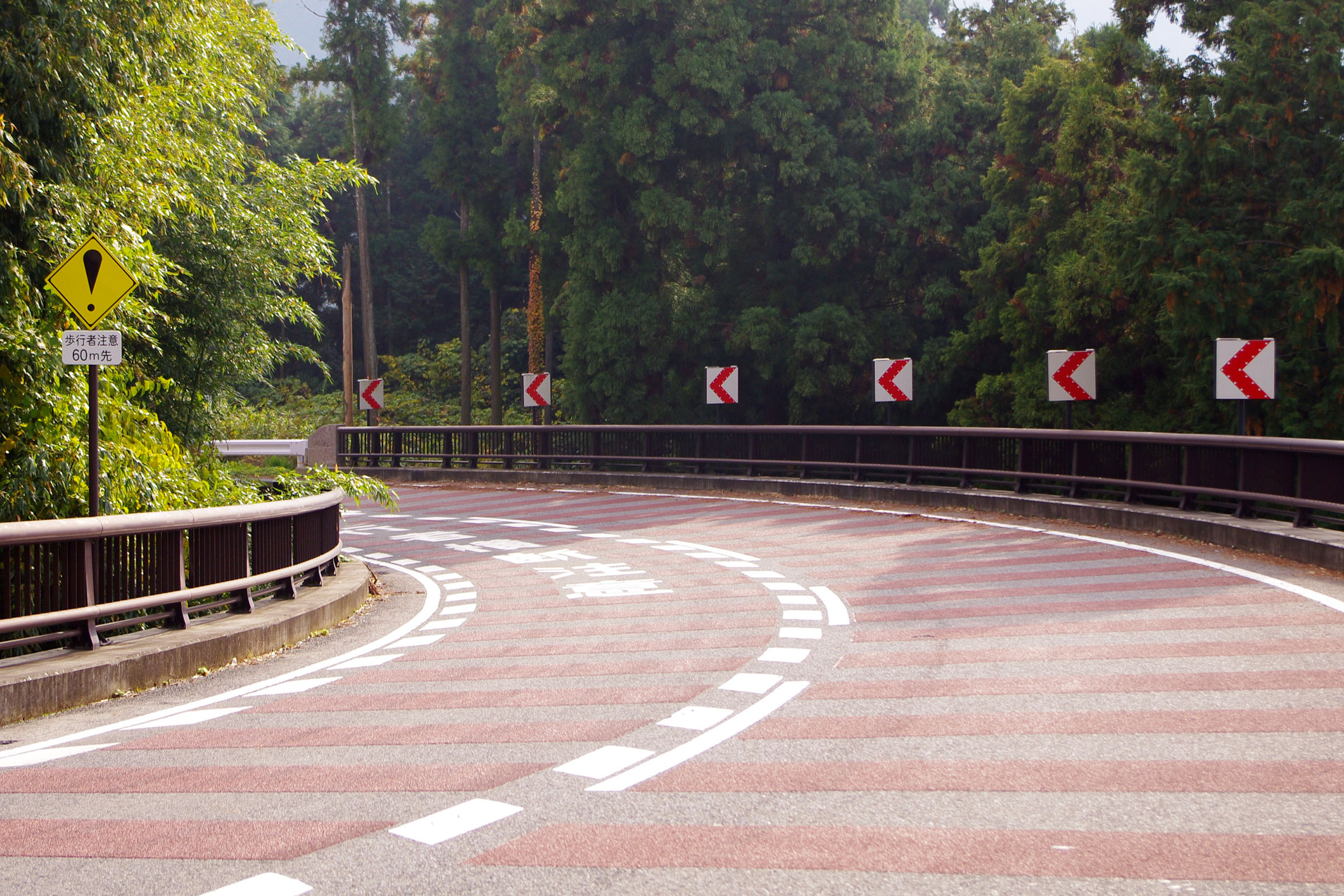 Nara Prefectural Road, Route 155 at Tonomine, Nara, Japan